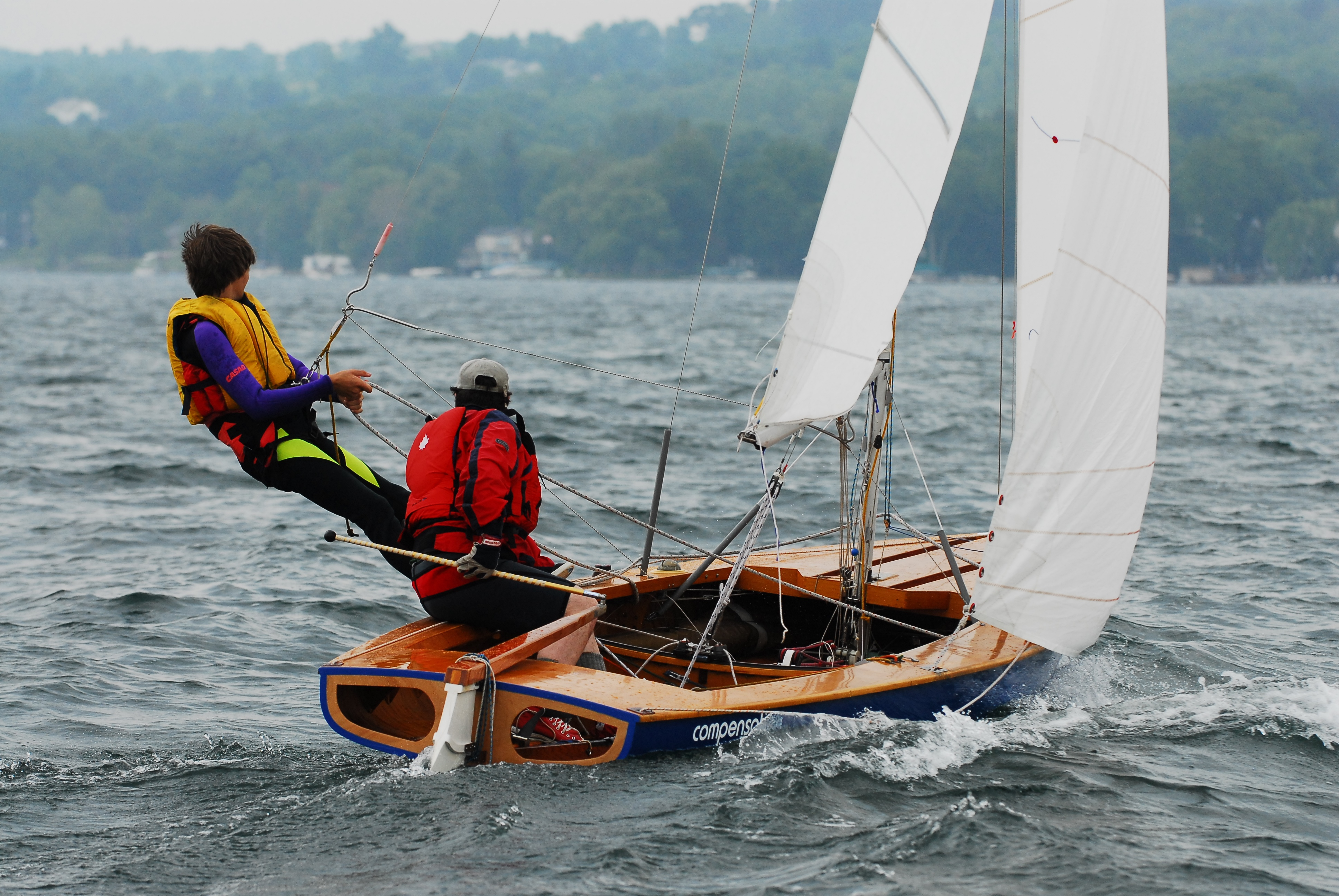 Flying Dutchmans sailing on the first day of the 2008 Cannonball Regatta held at the Canandaigua Yacht Club in New York and sailed on Canandaigua Lake.